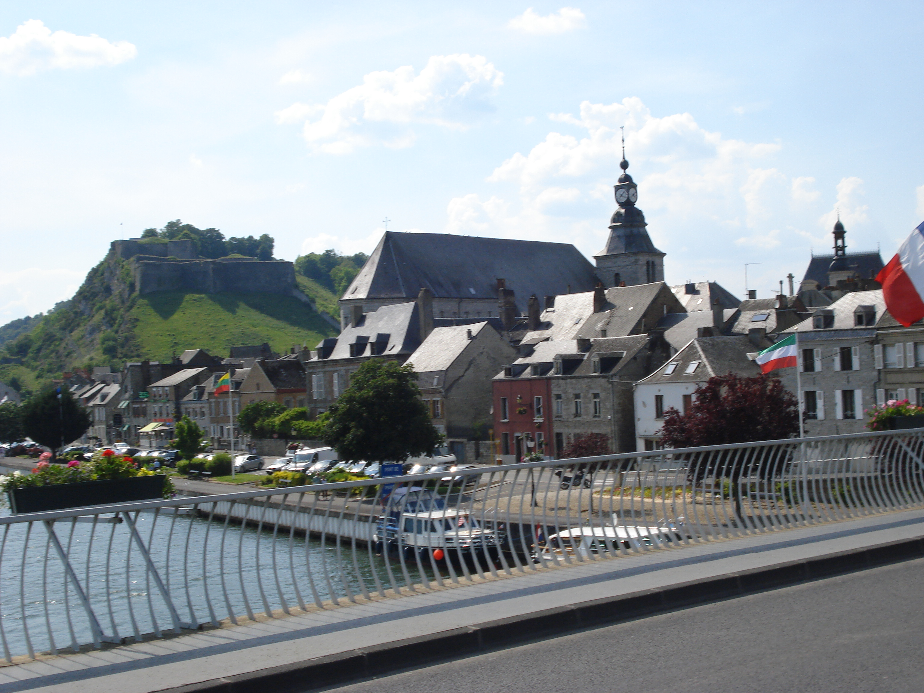 Sight of Givet with Fort de Rome (Fort de Charlemont)